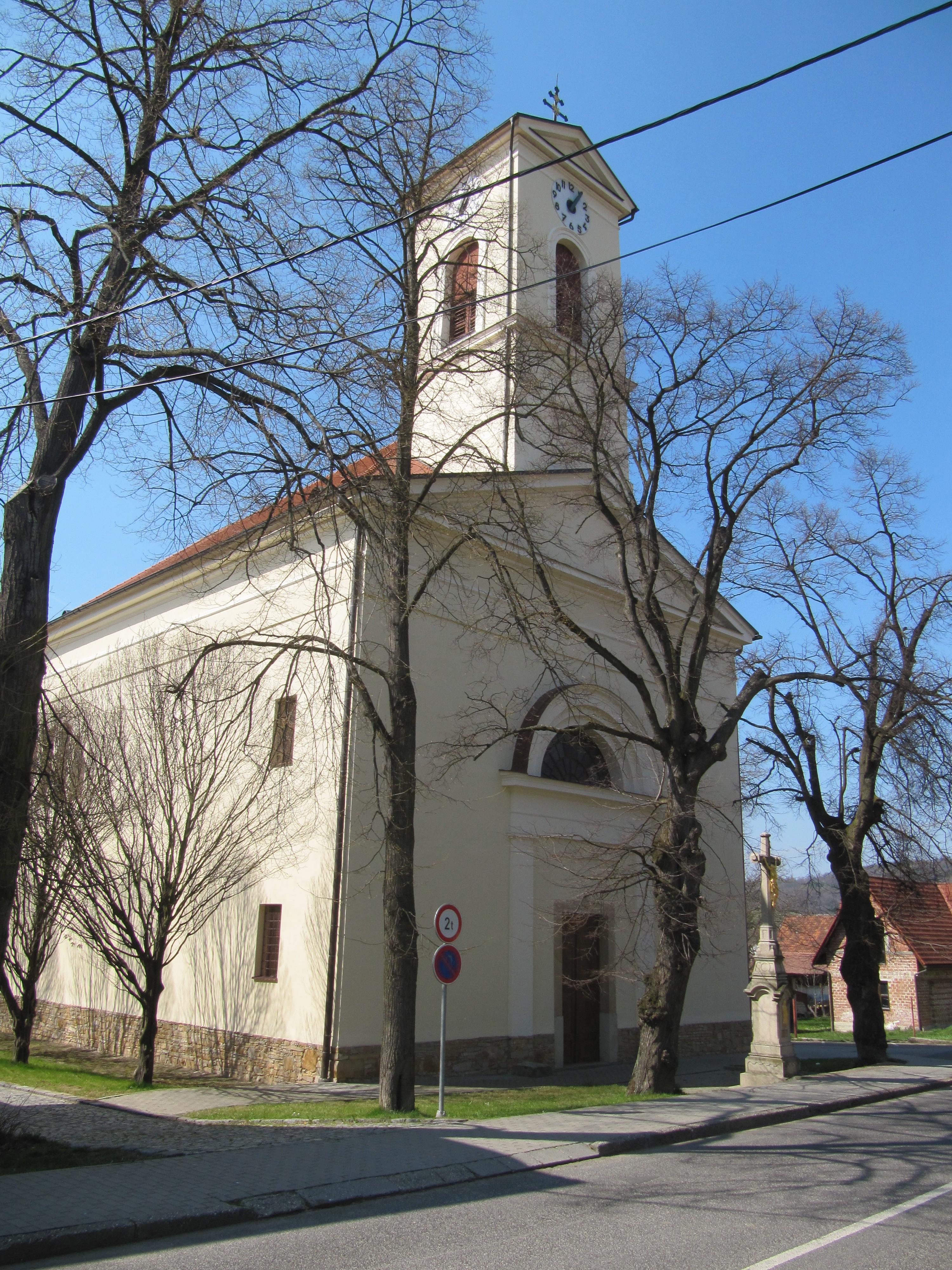 Komňa, Uherské Hradiště District, Czech Republic. Church of Saint James the Greater.